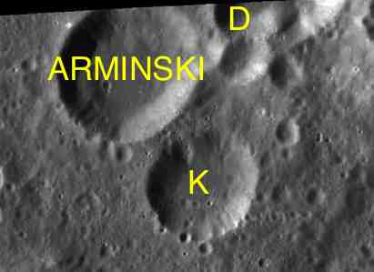 Part of the chart LAC-103 used for the presentation